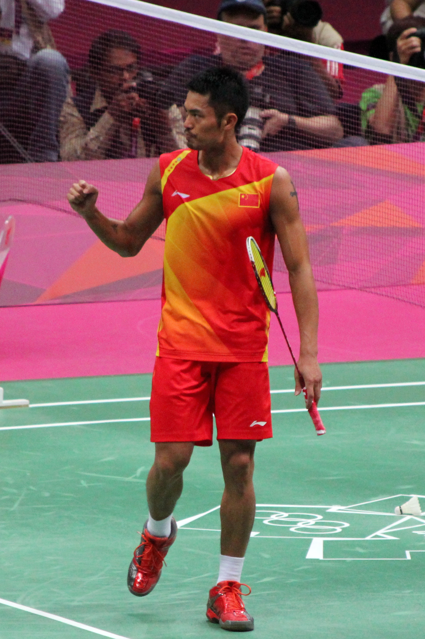 Mens badminton singles final between Lin Dan (China) and Lee Chong Wei (Malaysia) at the Wembley Arena, London 2012 Olympics